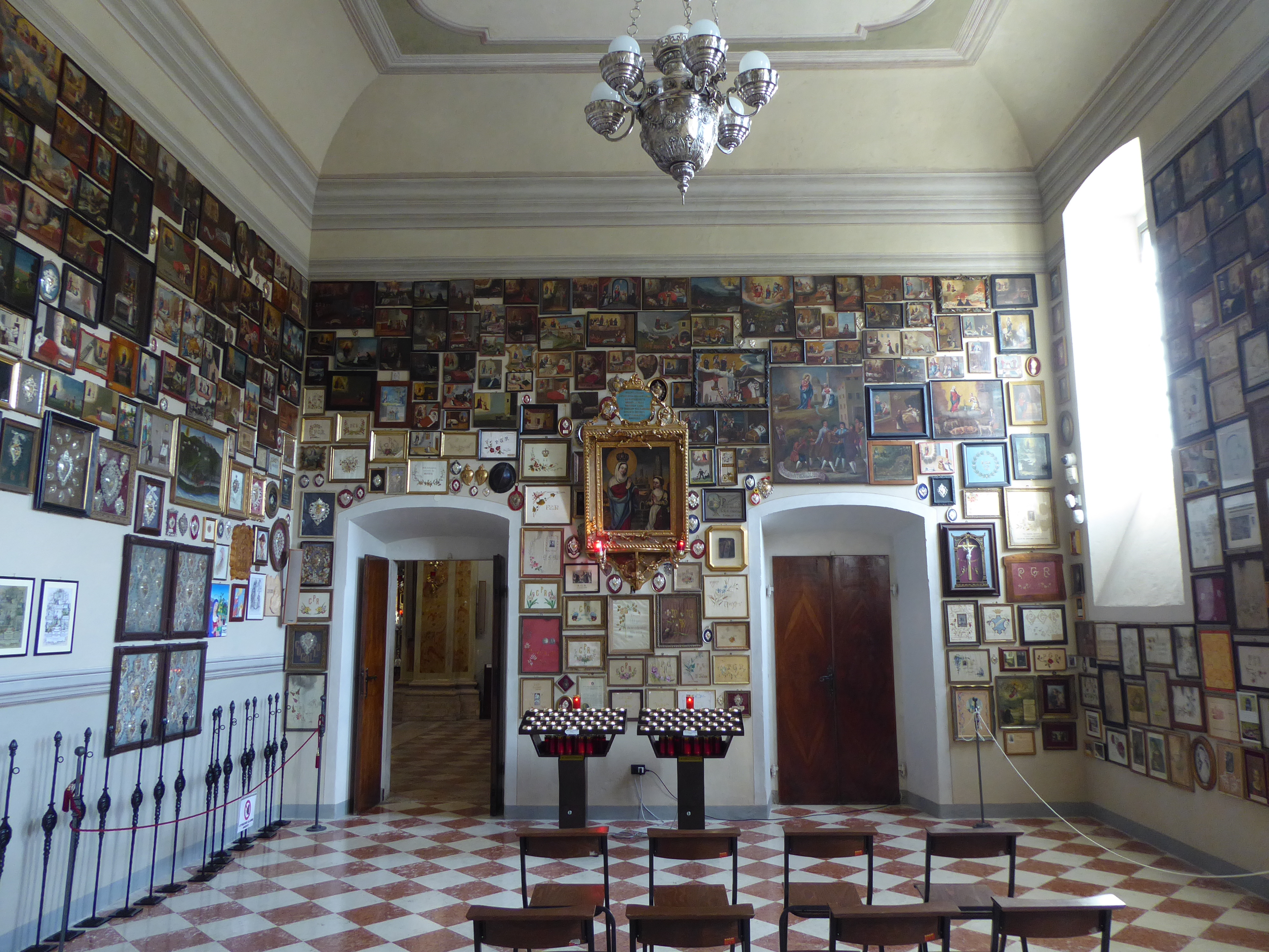 Santuario della Comparsa, Montagnaga (Baselga di Piné, Trentino, Italy), interior - Room with the memorial images of the Comparsa